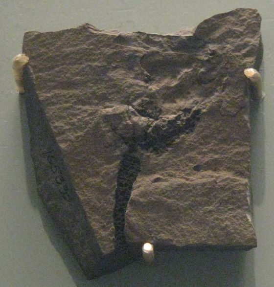 Echinoderm (Eocrinoid) Gogia radiata From the Burgess Shale.